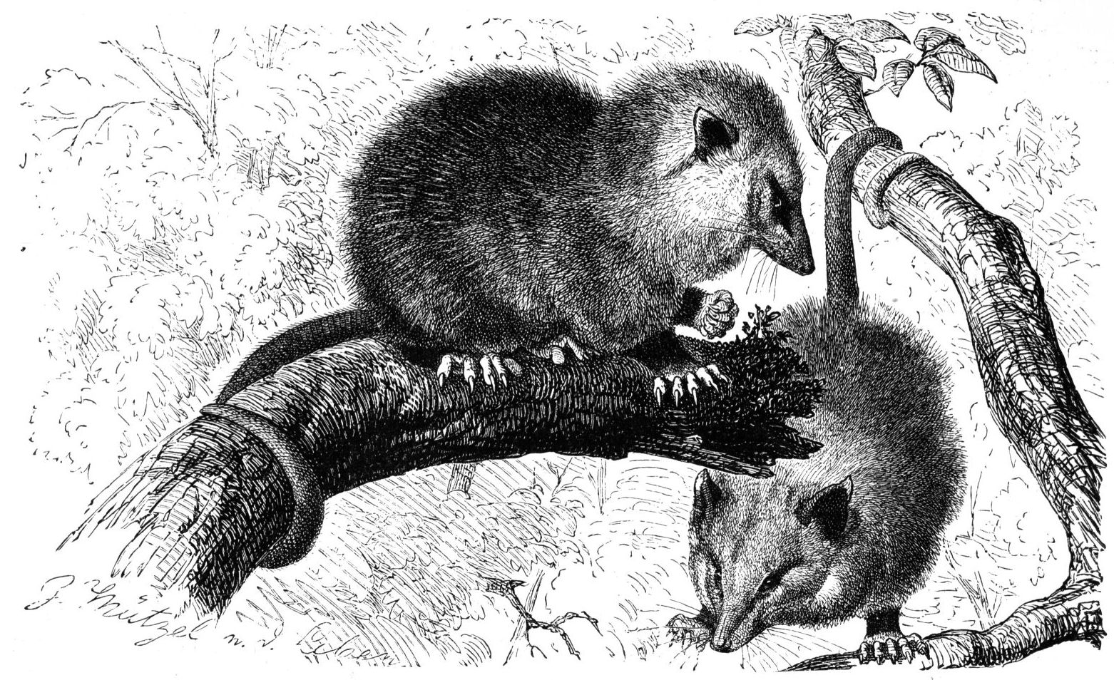 "Virginia opossum, Didelphis virginiana Kerr. 1/3 natural size." Size: 5.2 x 3.2 in² (13.2 x 8.1 cm²)